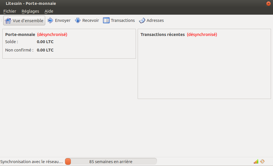 Litecoin sreenshot